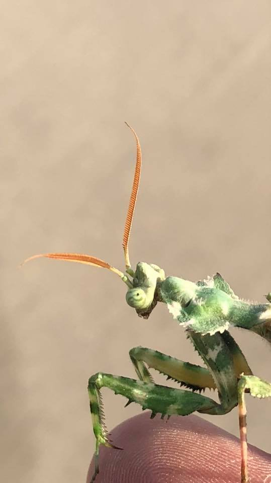 Blepharopsis mendica found in Saudi Arabia displaying front legs, head, eyes, and antennae